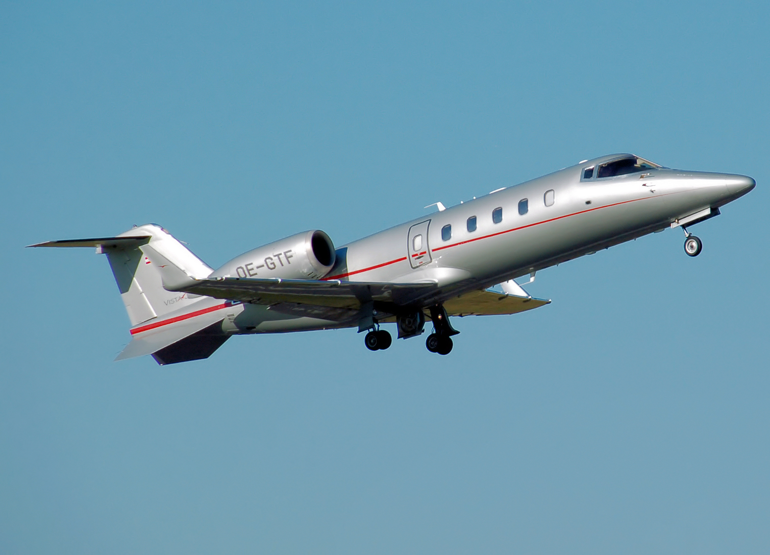 Bombardier Learjet 60 business jet (with Austrian registration OE-GTF) climbs away from London Luton Airport, England. Operator: VistaJet.